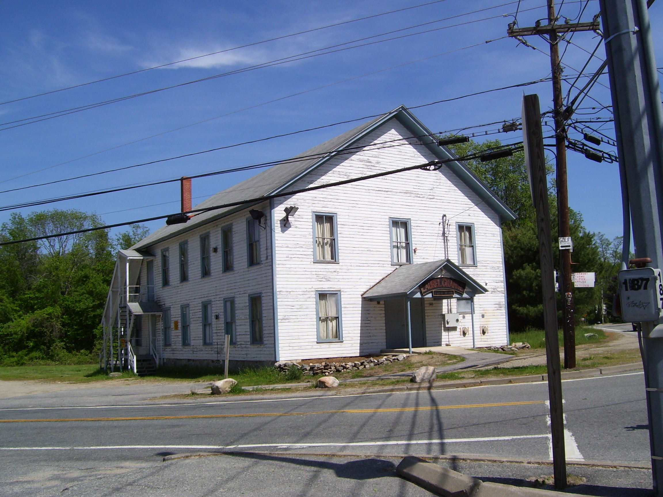 My 2008 photo of Laurel Grange in Harmony, Rhode Island, USA.